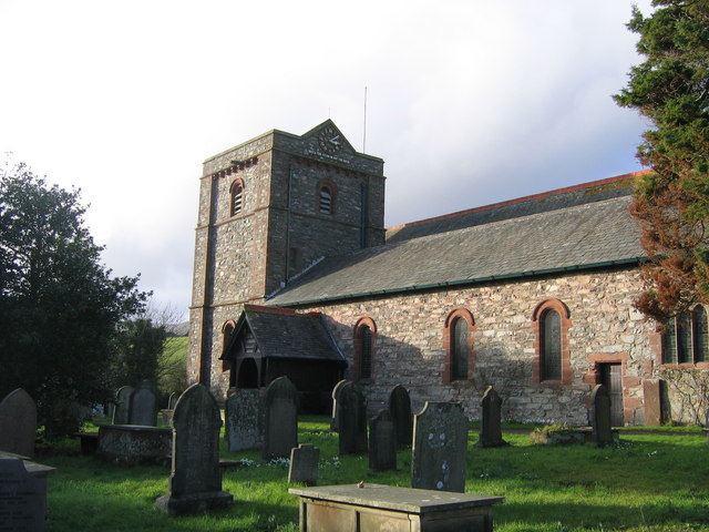 St Mary Magdelene, Broughton-in-Furness